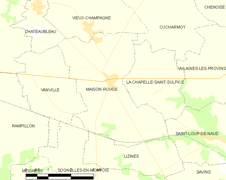 Map of French municipality Maison-Rouge